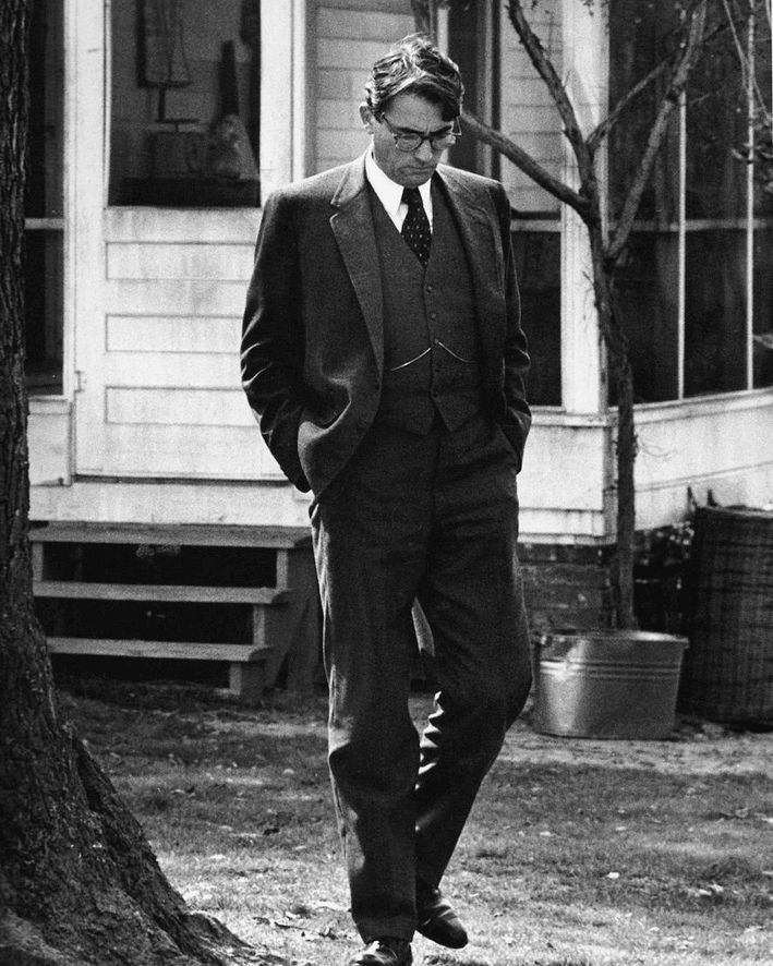 Gregory Peck publicity photo for the film To Kill a Mockingbird, 1962